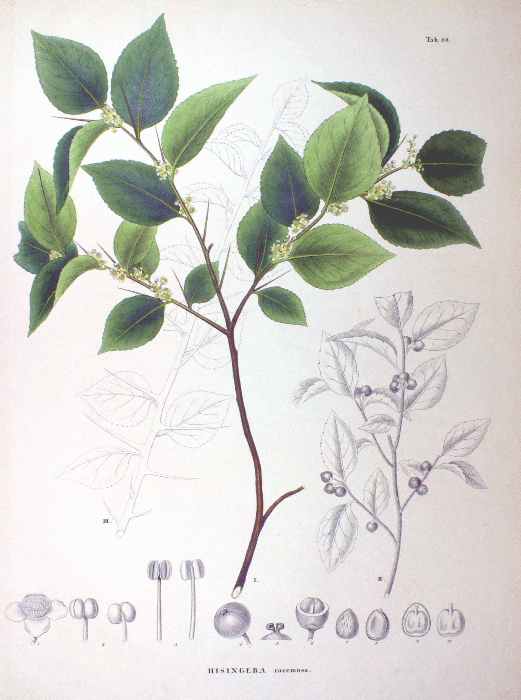 Plate from book